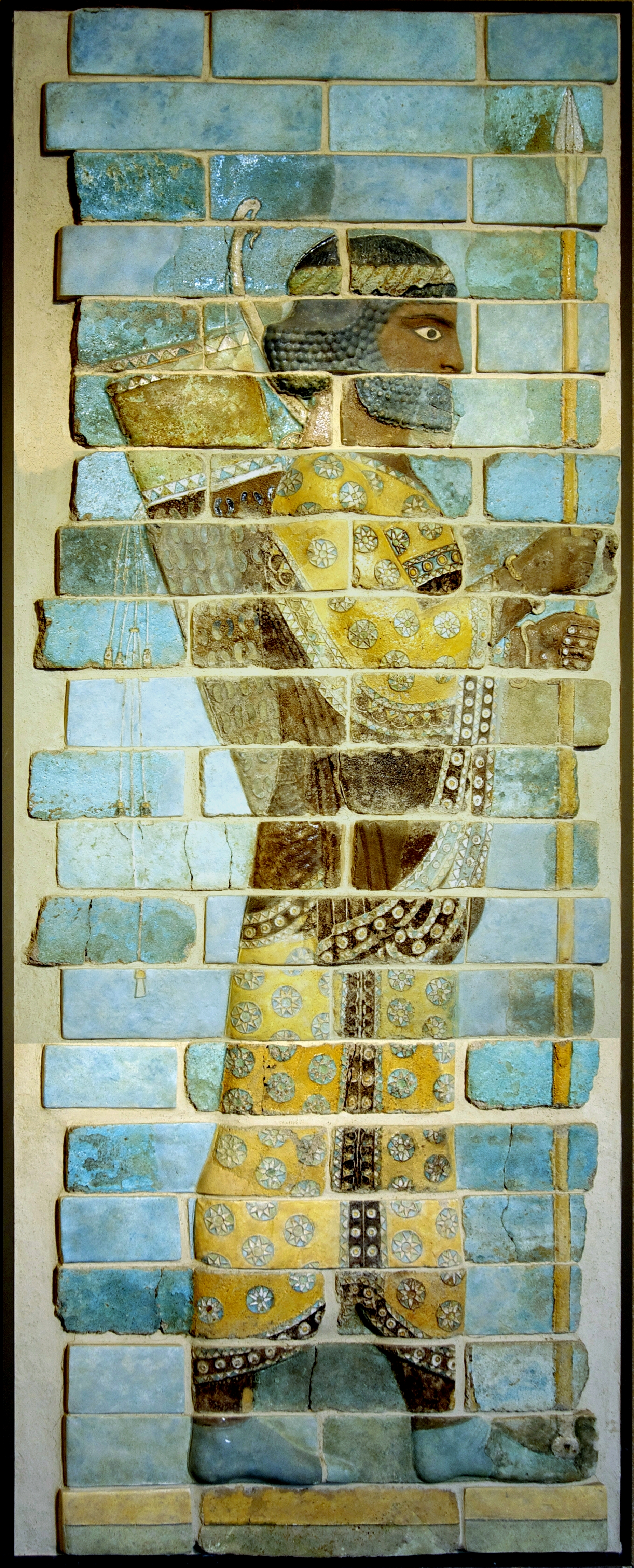 Lancers, detail from the archers' frieze in Darius' palace at Susa.